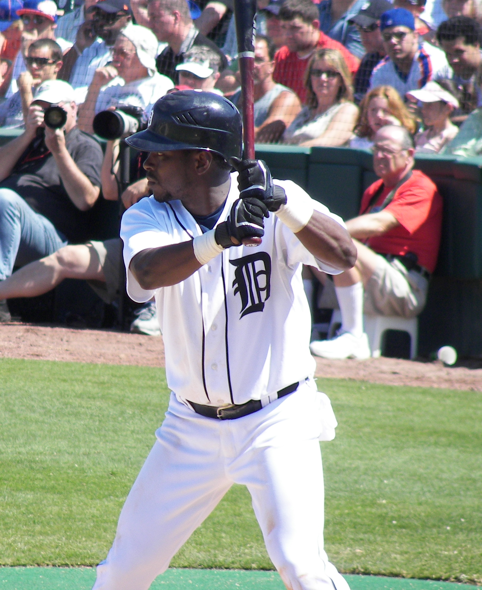 Detroit Tigers outfielder Timo Pérez during a Tigers/New York Mets spring training game at Joker Marchant Stadium in Lakeland, Florida.